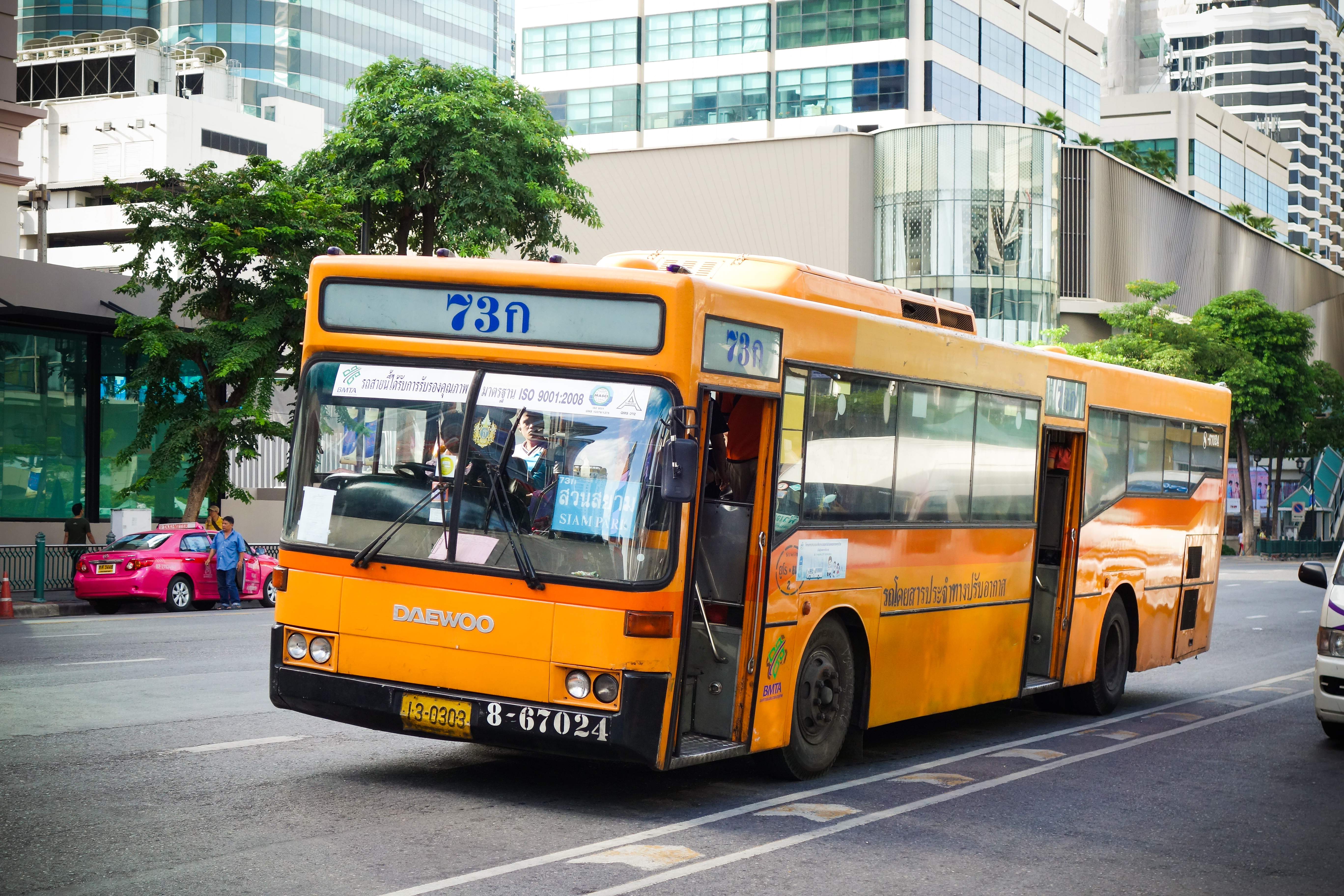 DAEWOO BH115